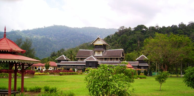 Title:Seri Menanti palace in Negeri Sembilan, Malaysia. Taken by: Adiput Date taken: March 31, 2006